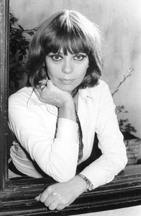 Ana Casares-actriz polaca